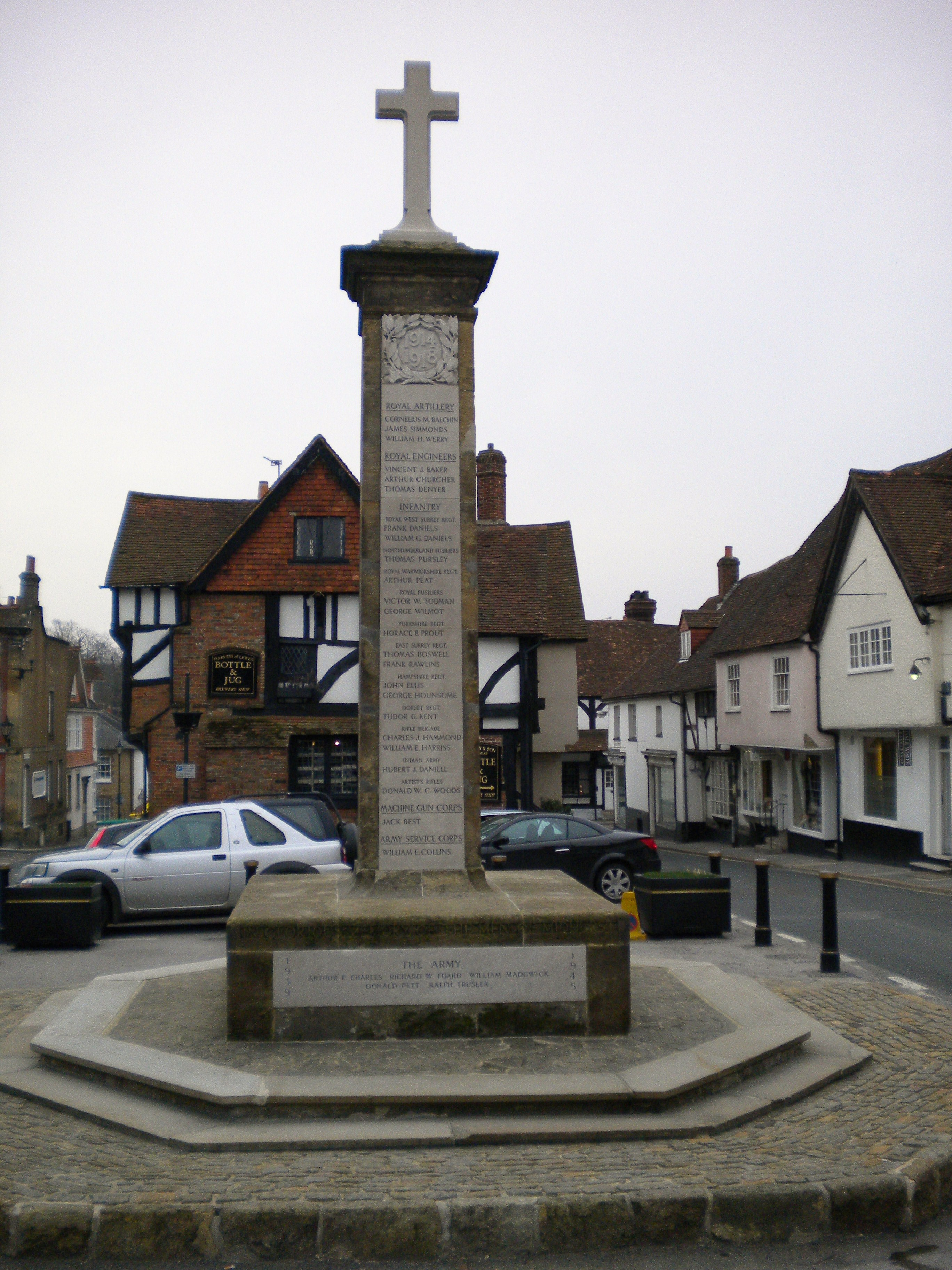 War memorial at Midhurst, West Sussex, England.